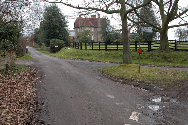 Upton Farm, Elmley Lovett.